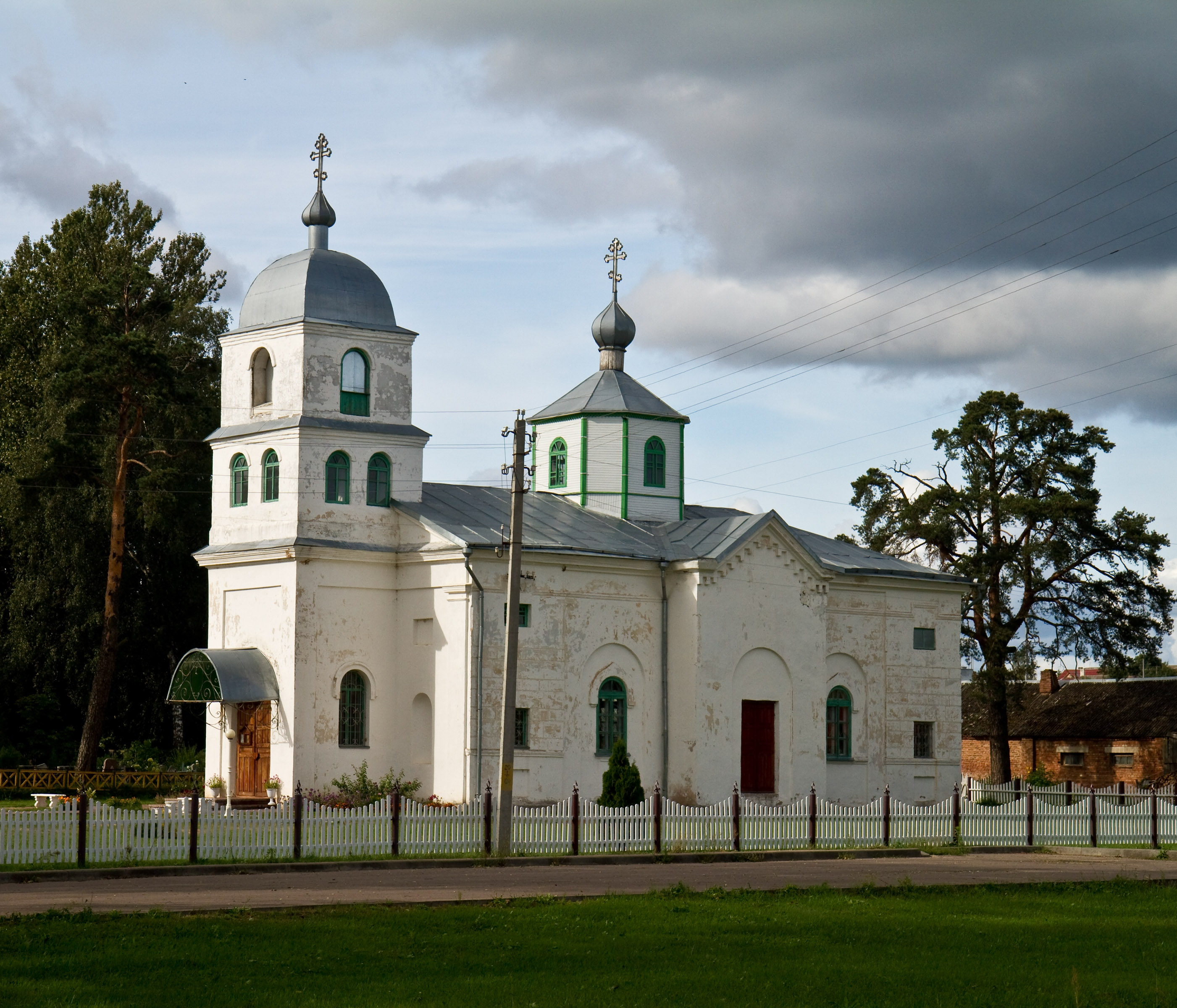 Church of St. Euphrosyne of Polatsk. Vierchniadźvinsk district, Viciebsk province, Belarus.